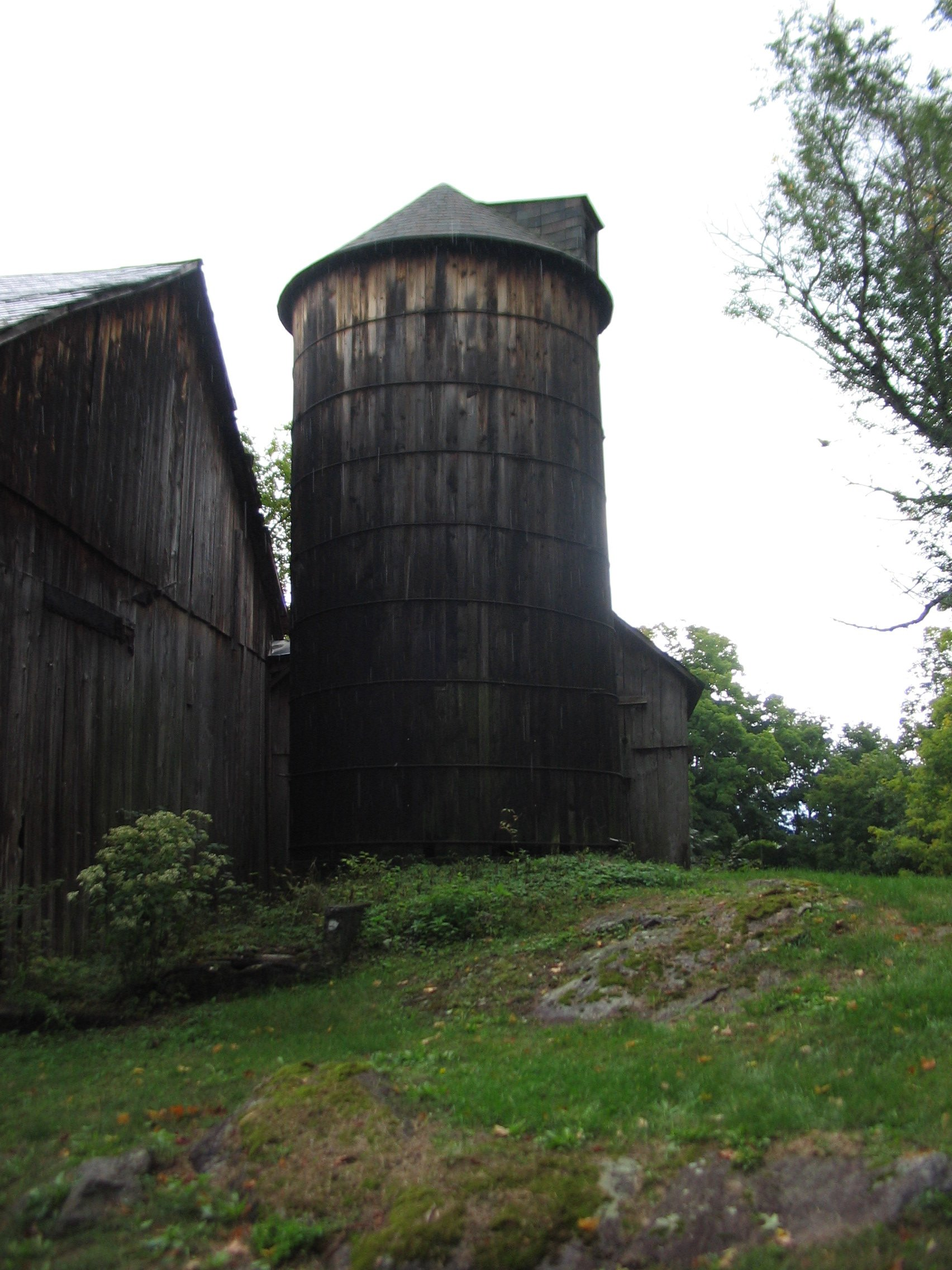 Photo of a wooden stave silo. This silo is located on the William Miller farm in Whitehall, NY. The silo is made from wooden staves and is held together by iron bands like a wooden barrel.